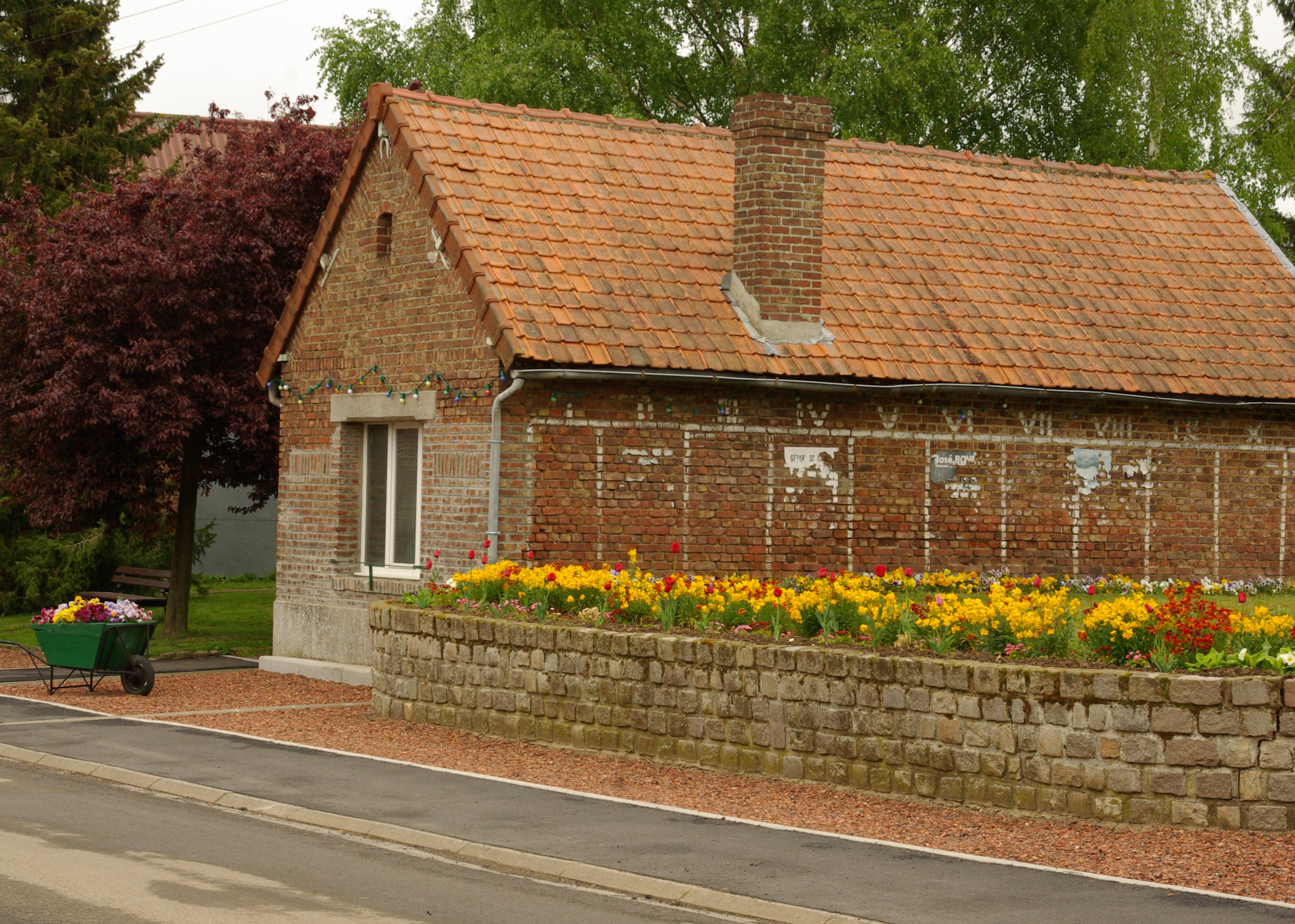 Flowers in the streets of Anneux